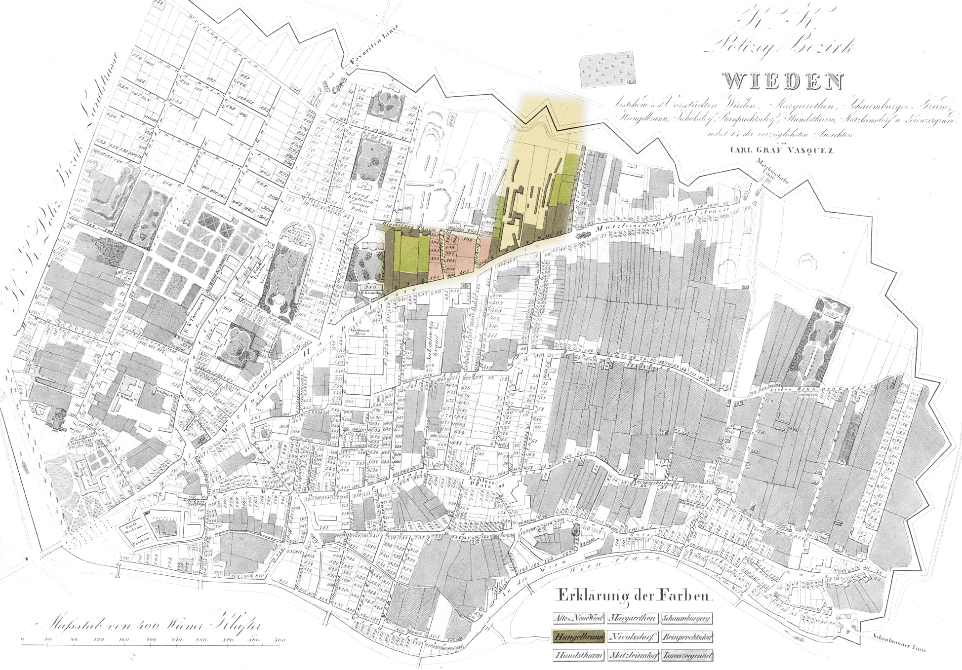 Map of Vienna / Hungelbrunn, approx. 1830